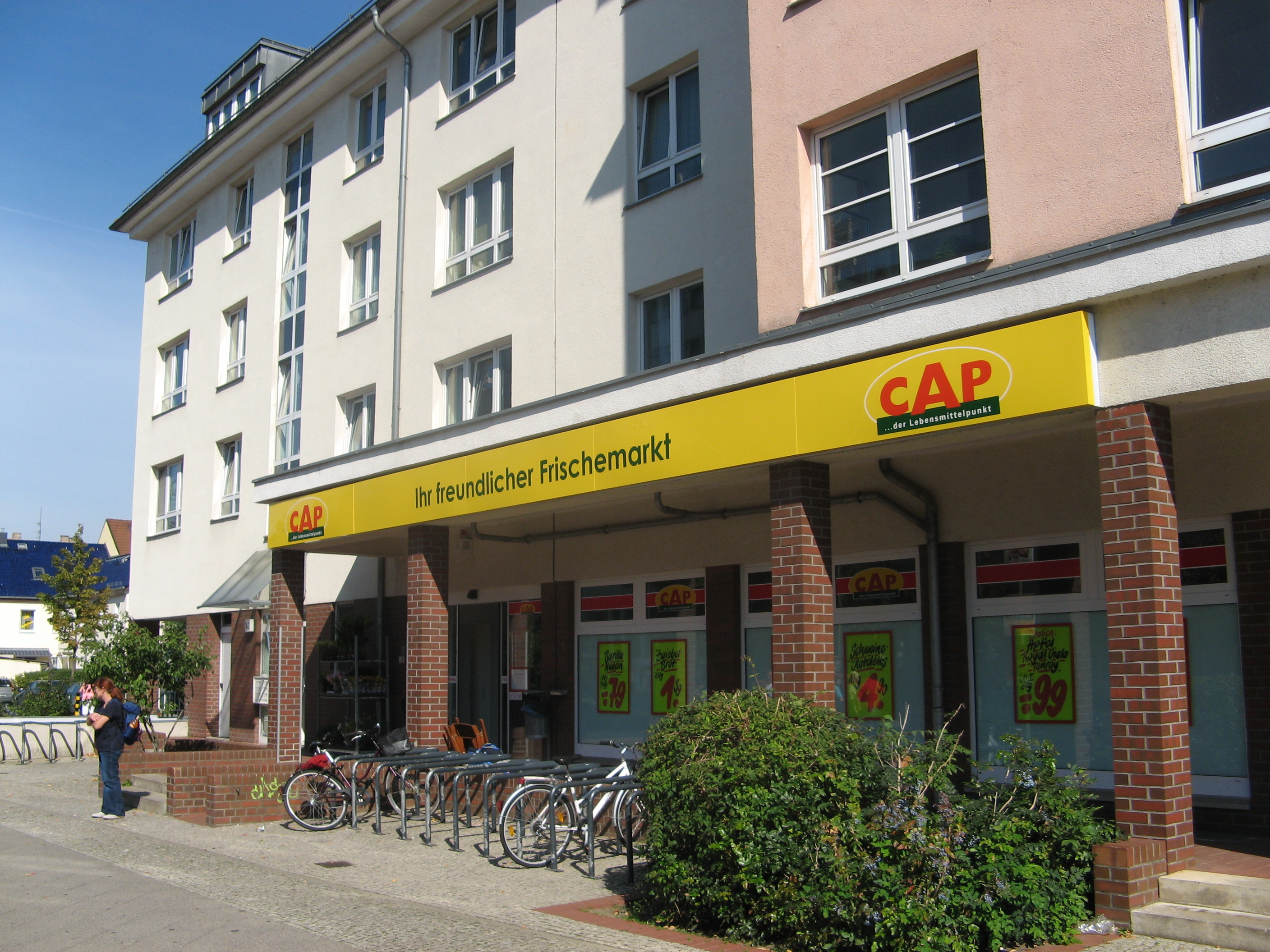 The CAP Markt in Köpenick,Berlin, Germany, September 2006